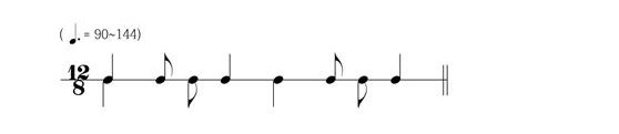 Sheet music of Jajinmorie Jangdan